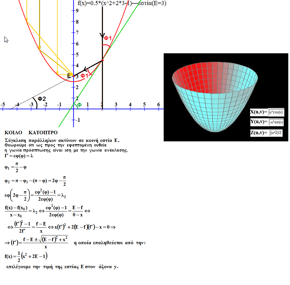 Κοίλο κάτοπτρο